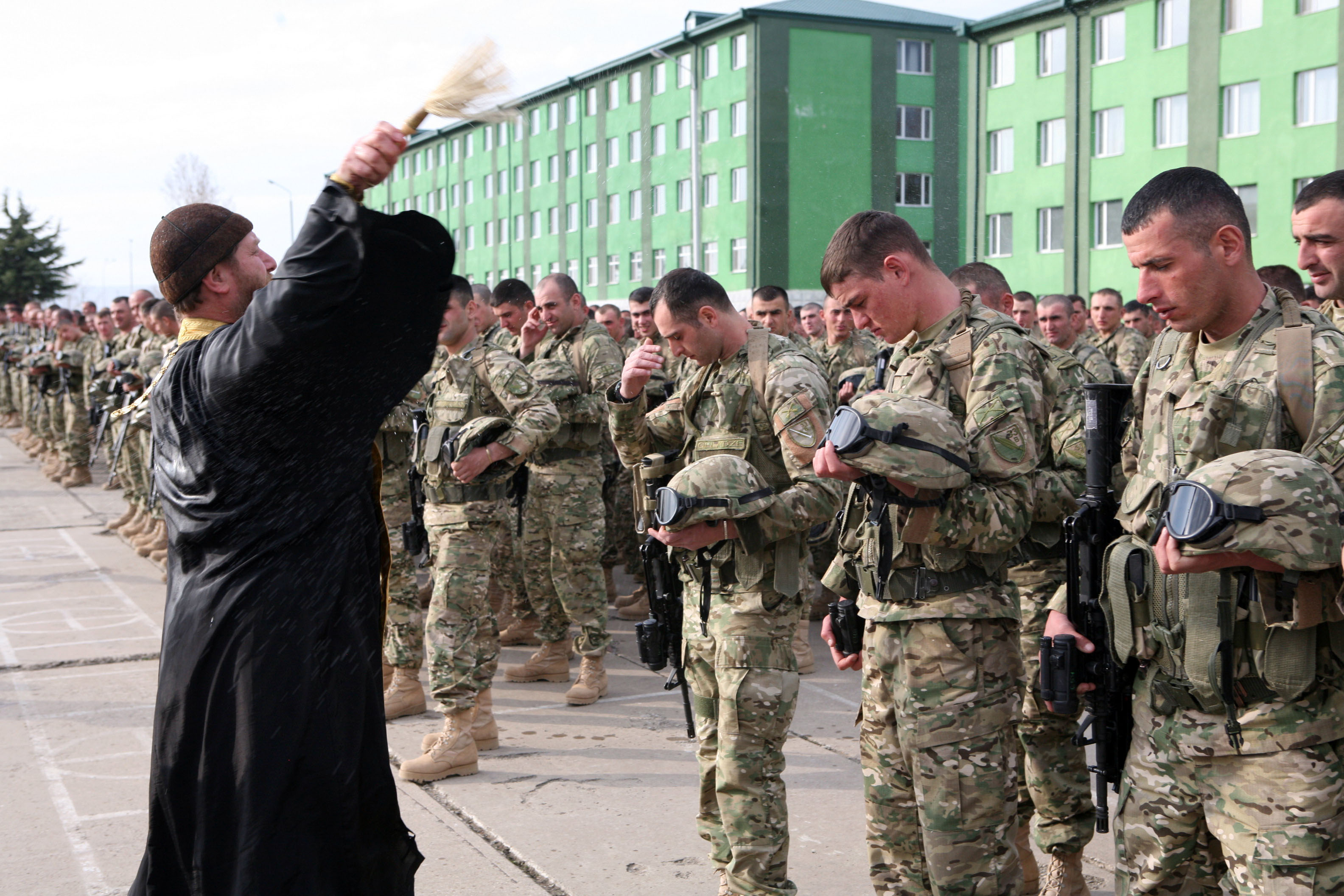 VAZIANI, Republic of Georgia-A chaplain from the Republic of Georgia's 33rd Light Infantry Battalion anointed more than 800 Georgian soldiers at the conclussion of the battalion's deployment ceremony at Vaziani Training Area, yesterday. The 33rd LIB recently concluded a six-month training package in preparation for their upcoming deployment to the Helmand Providence, Afghanistan in support of Georgia Deployment Program - International Security Assistance Force (ISAF). , Gunnery Sgt. Alexis R. Mulero, 4/8/2011 6:58 PM